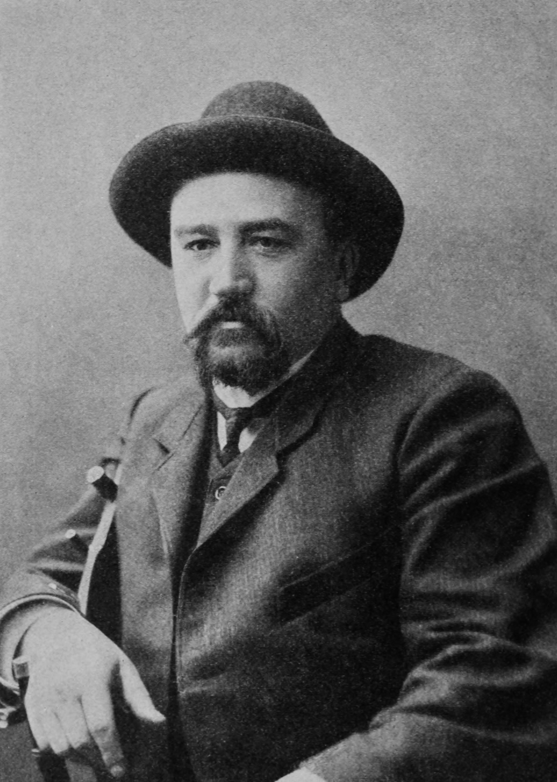 Aleksandr Ivanovich Kuprin